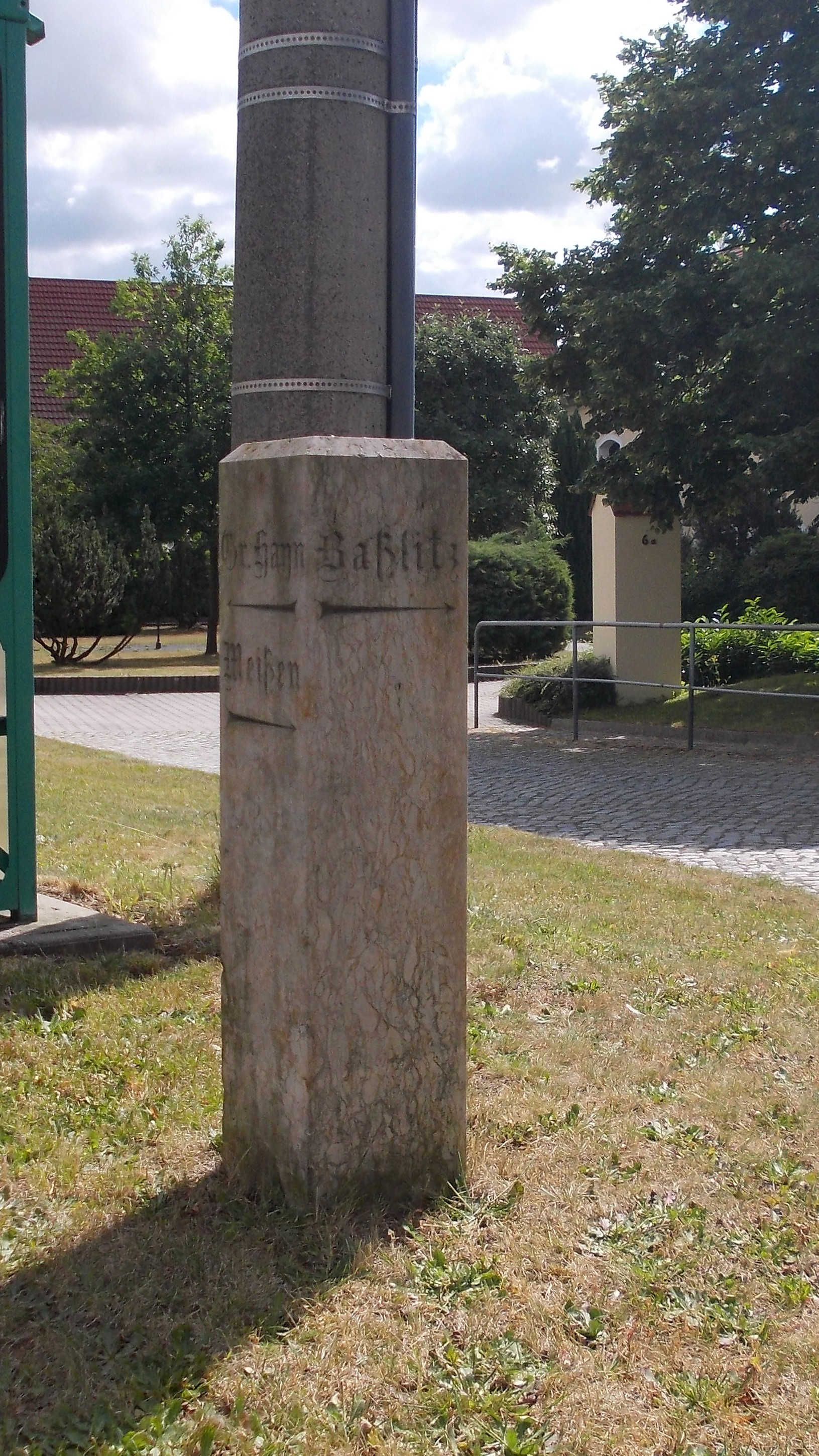 Historic signpost in Stauda (Priestewitz, Meissen district, Saxony)